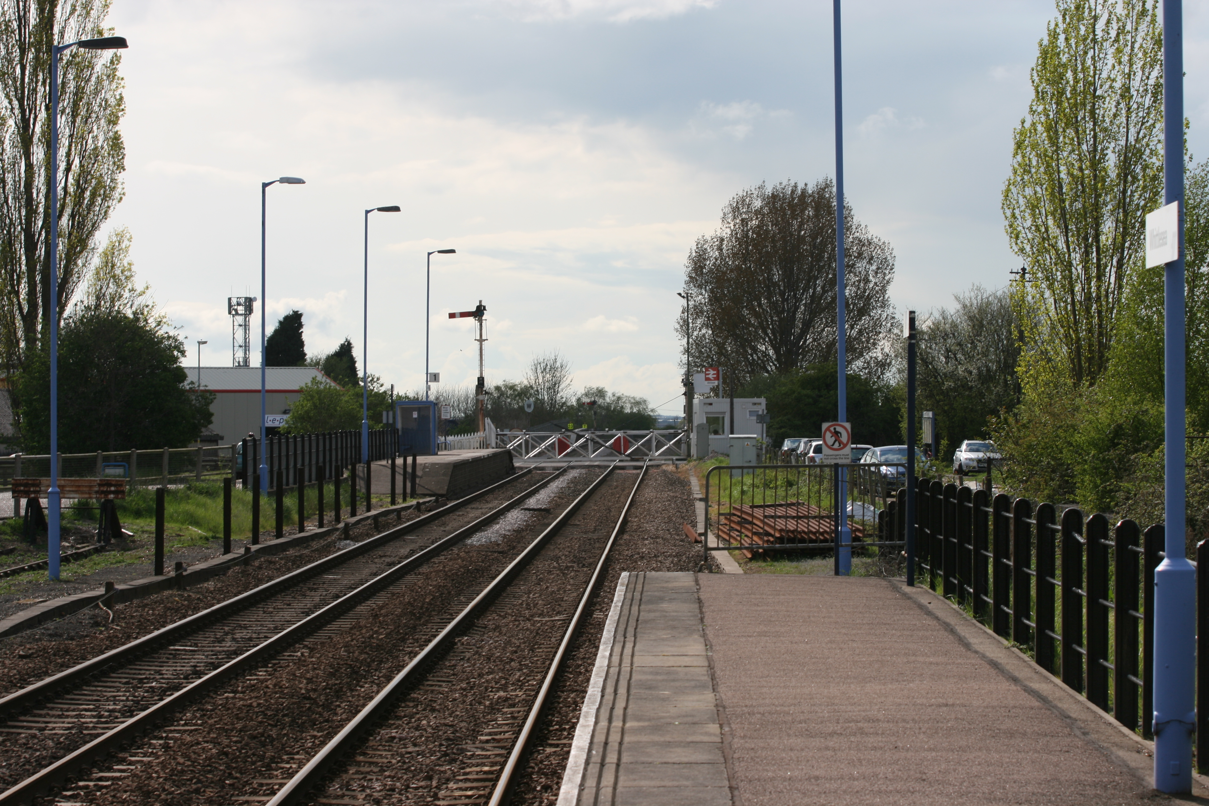 Whittlesea railway station in Cambridgeshire. Looking towards the westbound platform 1 for Peterborough from the eastbound platform 2.